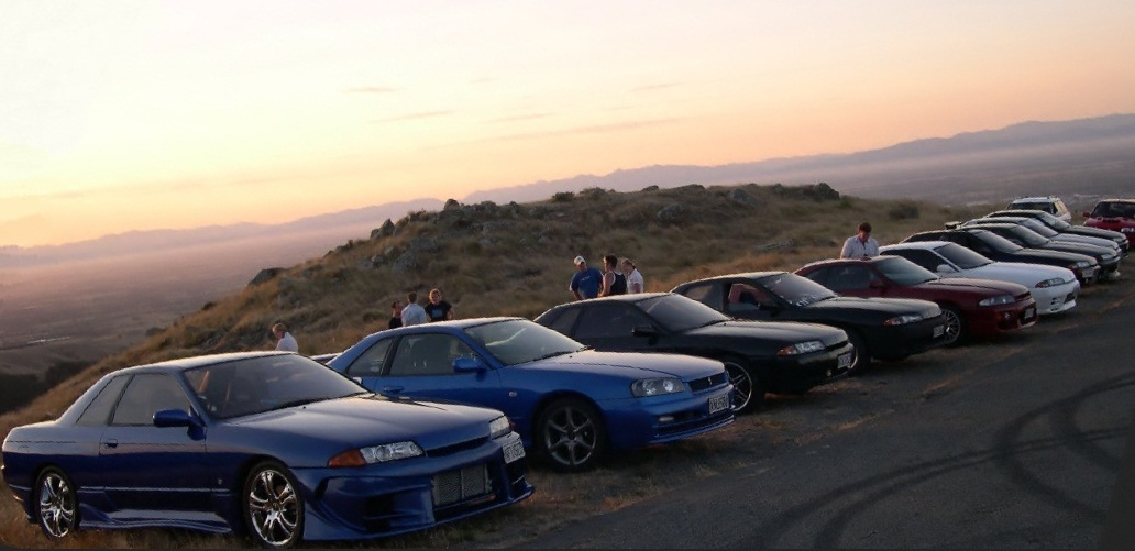 club meet on the Port hills, Christchurch, New Zealand